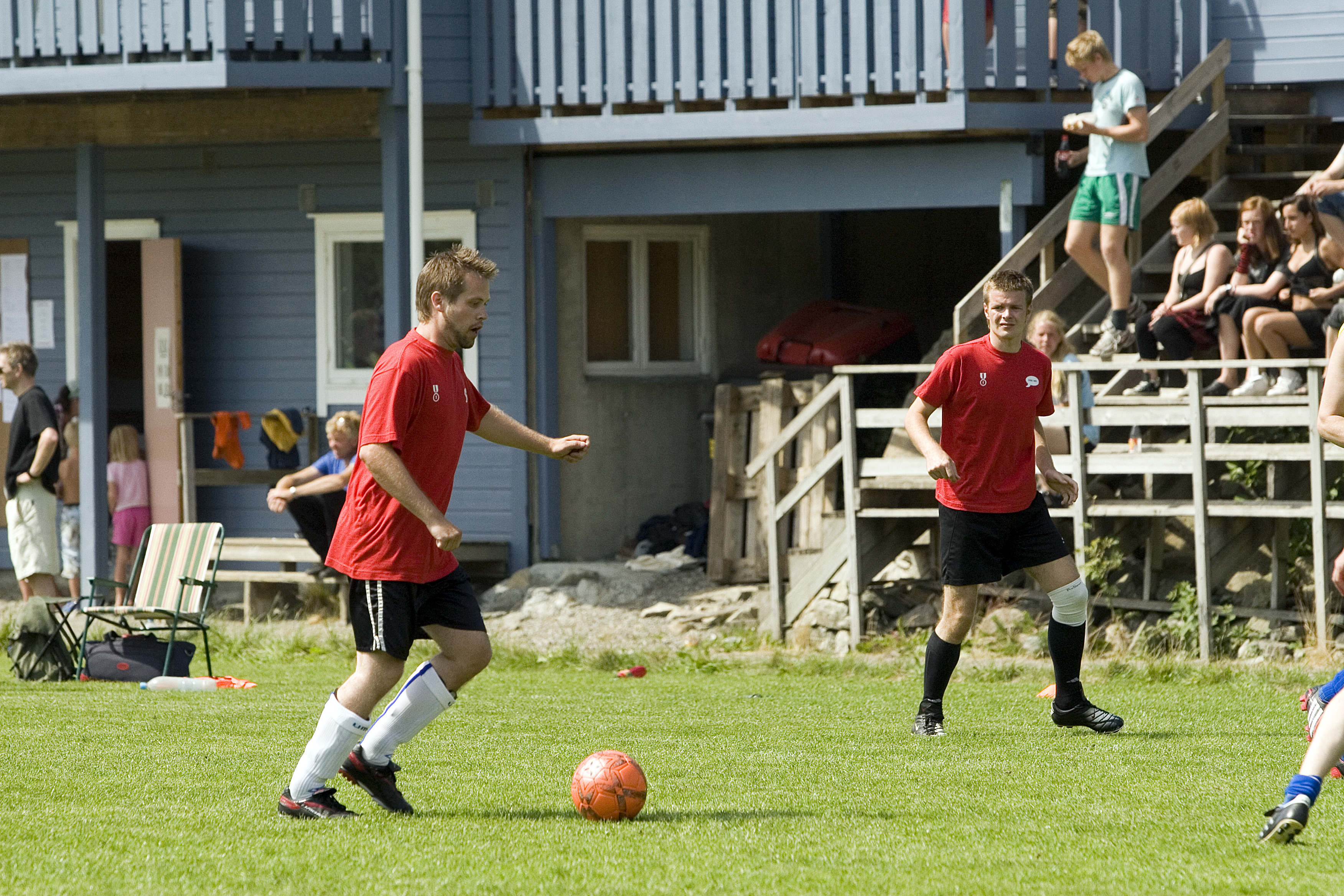 From the annual Tysnes Cup in the municipality of Tysnes. This photo shows two players from "Feige lag" in red on the pitch at Reiso in July 2008.